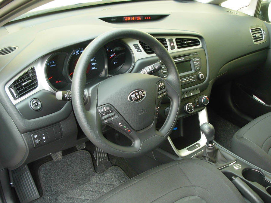 Interior of a second-generation Kia Cee'd Active